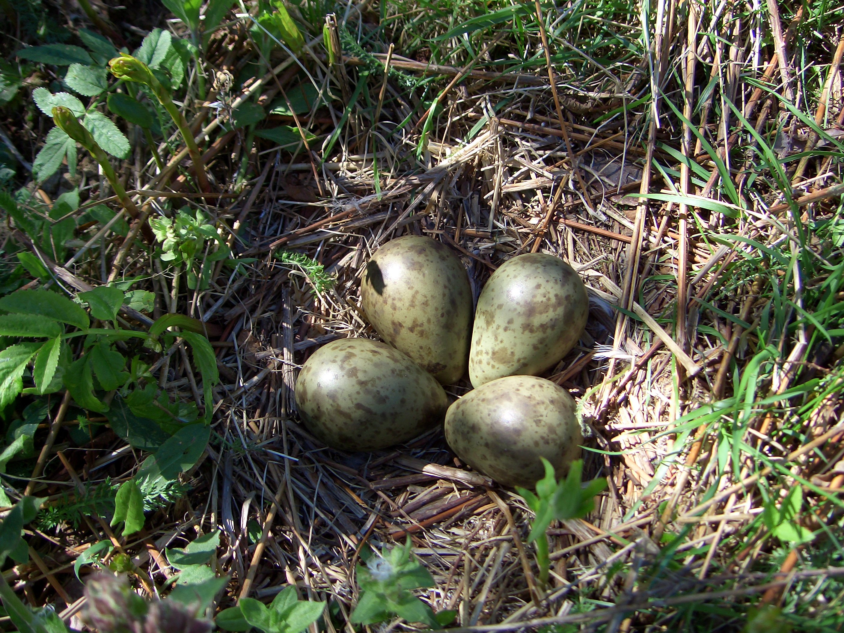 Eggs in the nest of numenius arquata - photo by Polarit 3-June-2006 Tornio, Finland